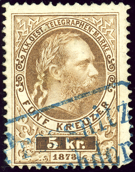 Austrian KK Telegraph 5 kreuzer stamp, issue 1874, engraved, blue cancelled at Pressnitz (Bohemia)